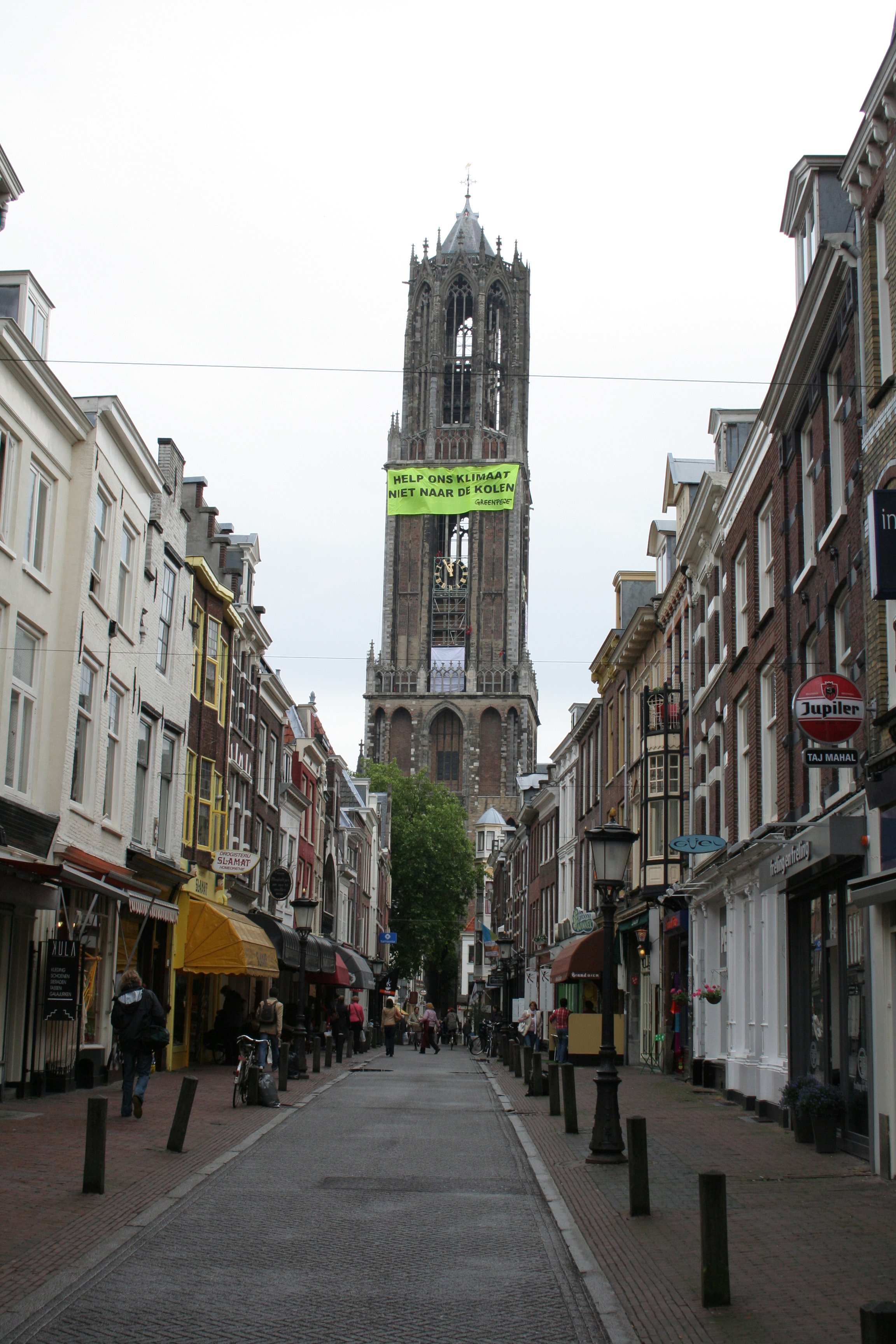 Protest of Greenpeace in Utrecht